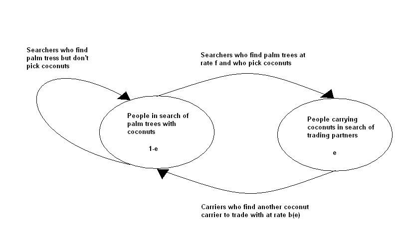 Diagram showing population flows in the Diamond coconut model. Based on Diamond's original 1982 paper.